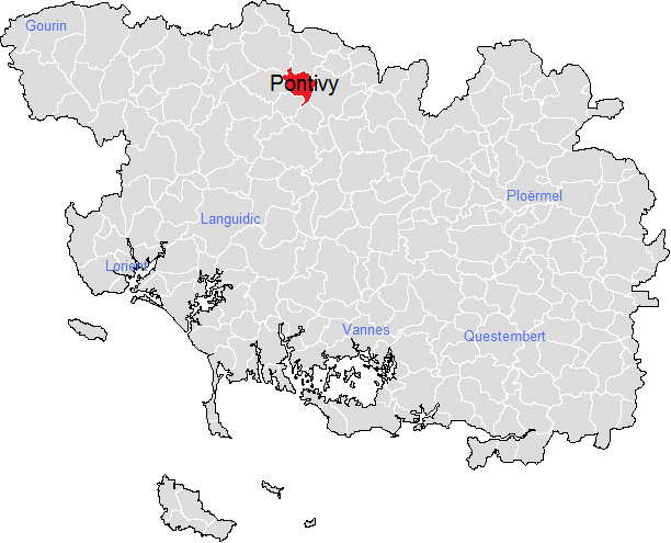 placement Pontivy in Morbihan departement